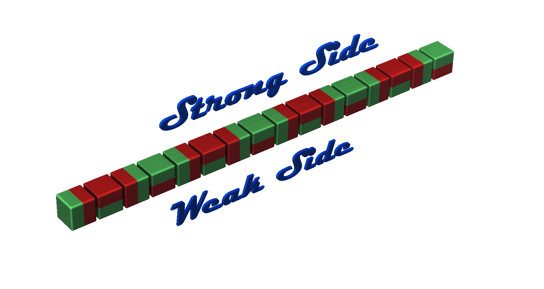 Orientation of strong and weak side in a linear Halbach array (Strong side up)